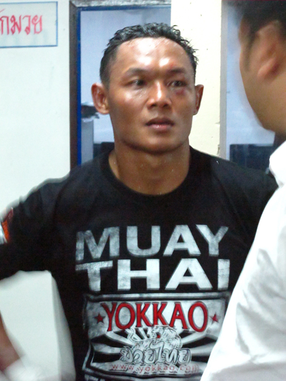 Saenchai Sinbimuaythai at Lumpini Stadium